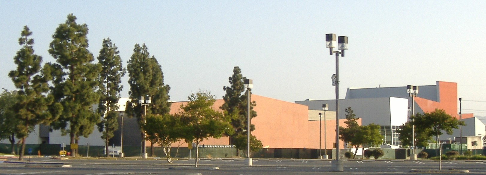 Irvine Valley College's new $32 million Performing Arts Center and the $19 million Business Sciences and Innovation Center scheduled to open in 2008.